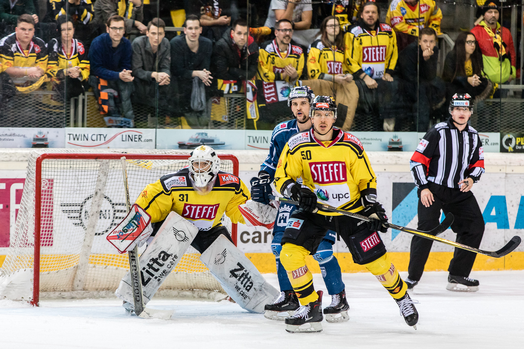 2017-11-17 Vienna Capitals vs Fehervar AV19